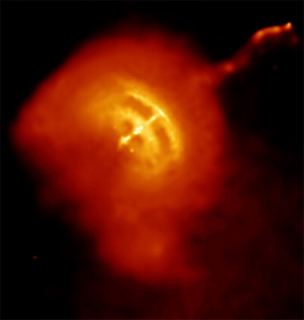 The Vela Pulsar, a neutron star corpse left from a titanic stellar supernova explosion, shoots through space powered by a jet emitted from one of the neutron star's rotational poles. Now a counter jet in front of the neutron star has been imaged by the Chandra X-ray observatory. The Chandra image above shows the Vela Pulsar as a bright white spot in the middle of the picture, surrounded by hot gas shown in yellow and orange. The counter jet can be seen wiggling from the hot gas in the upper right. Chandra has been studying this jet so long that it's been able to create a movie of the jet's motion. The jet moves through space like a firehose, wiggling to the left and right and up and down, but staying collimated: the "hose" around the stream is, in this case, composed of a tightly bound magnetic field.